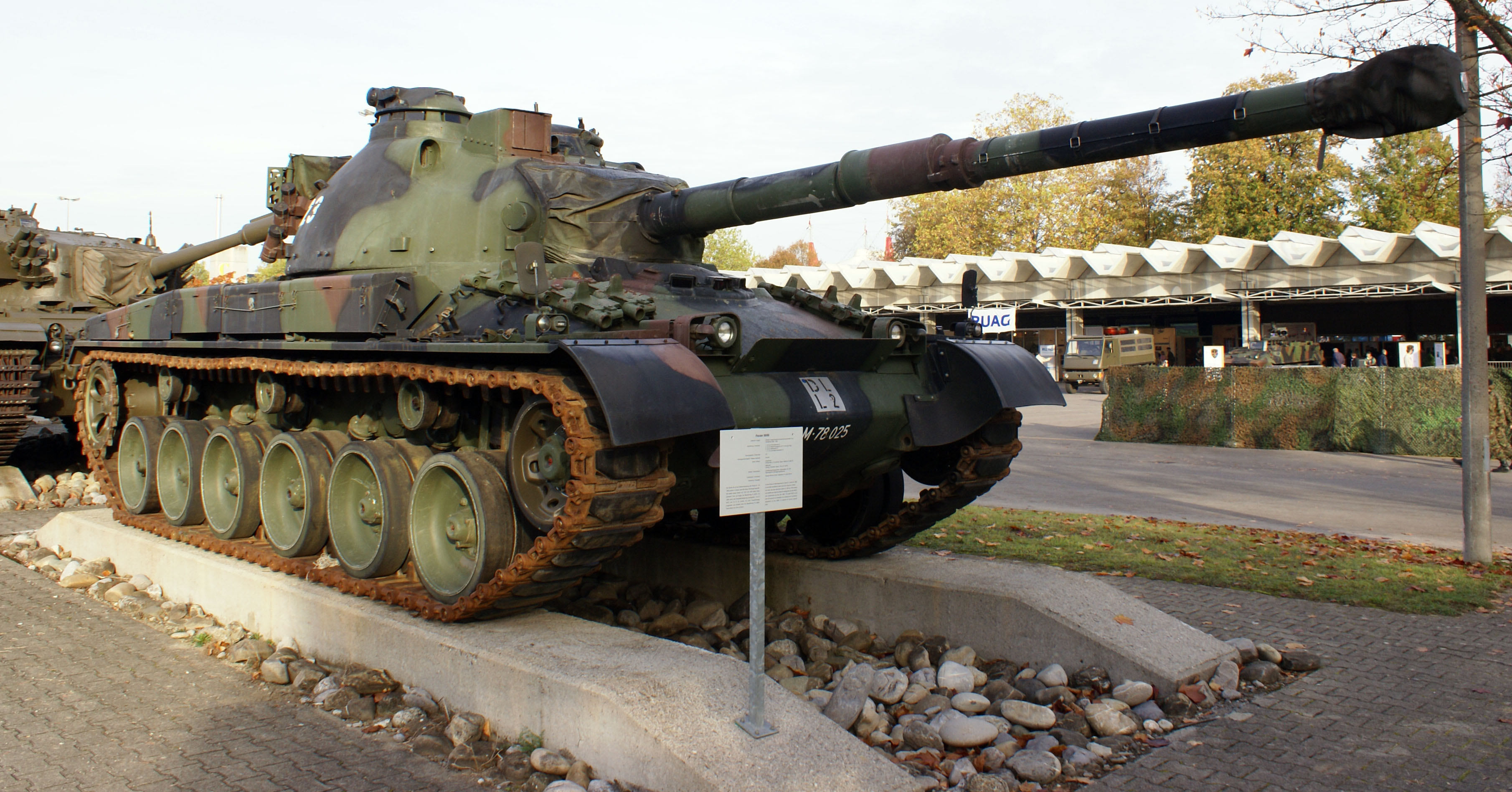 Swiss Army. Main battle tank 68/88. Tank Museum Thun.